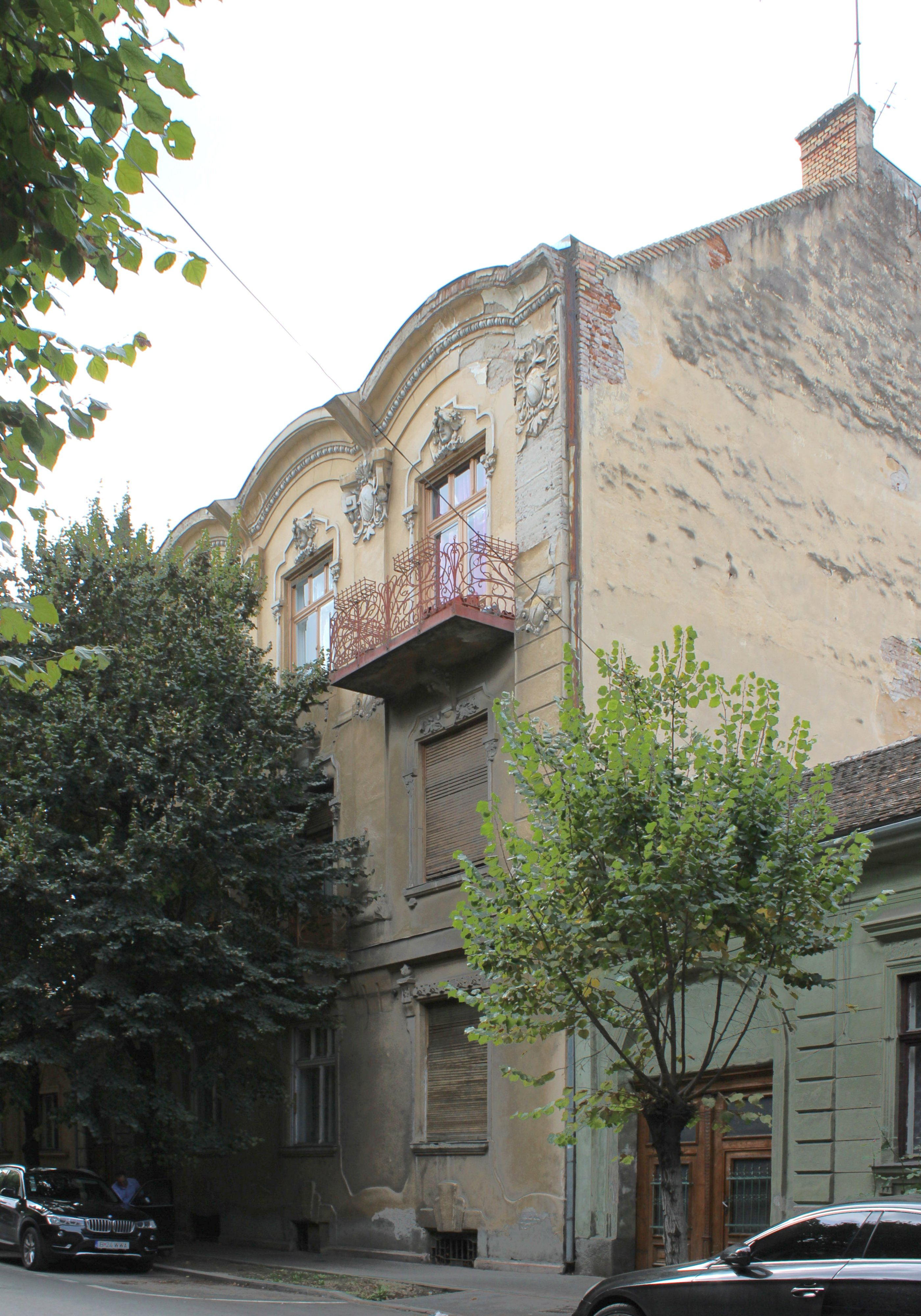 Rónai Palace, Arad, Romania.